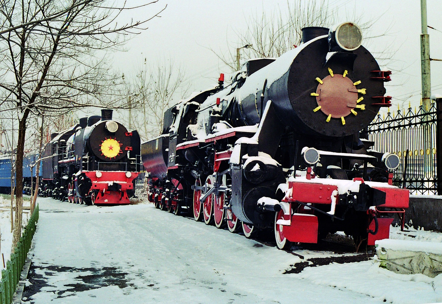 Steam locomotive ТЭ-5200 of the Soviet Railway Administration in the Museum of Rail Transport in Tashkent, Uzbekistan (former German DRB Class 52)